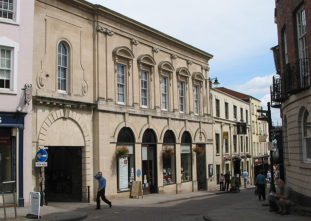 Corn Exchange, High Street Meeting place of the Town Council. Built in 1862 and with a lifelong connection with entertainment, at one point the building was used as a cinema.